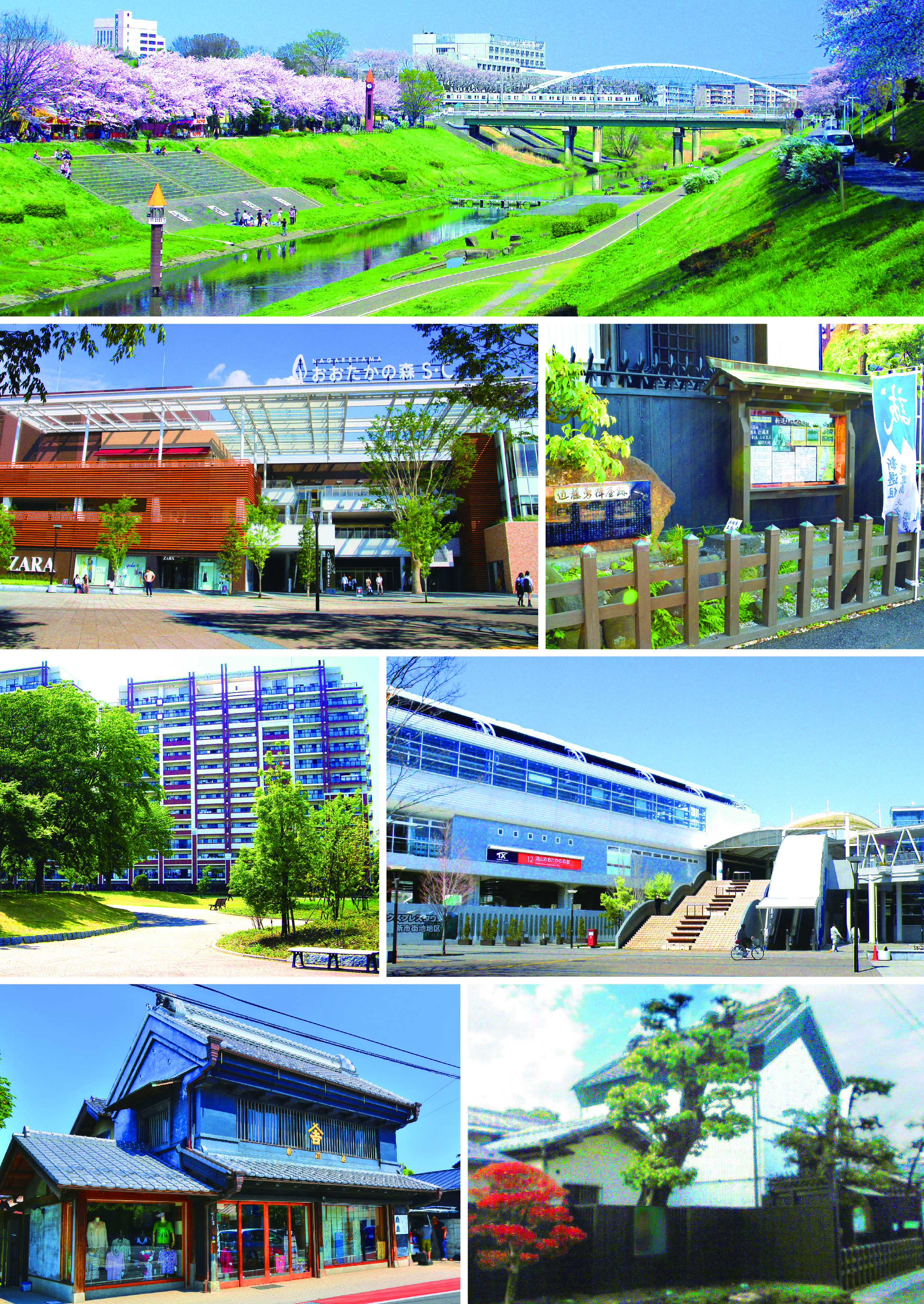 Nagareyama montage.jpg